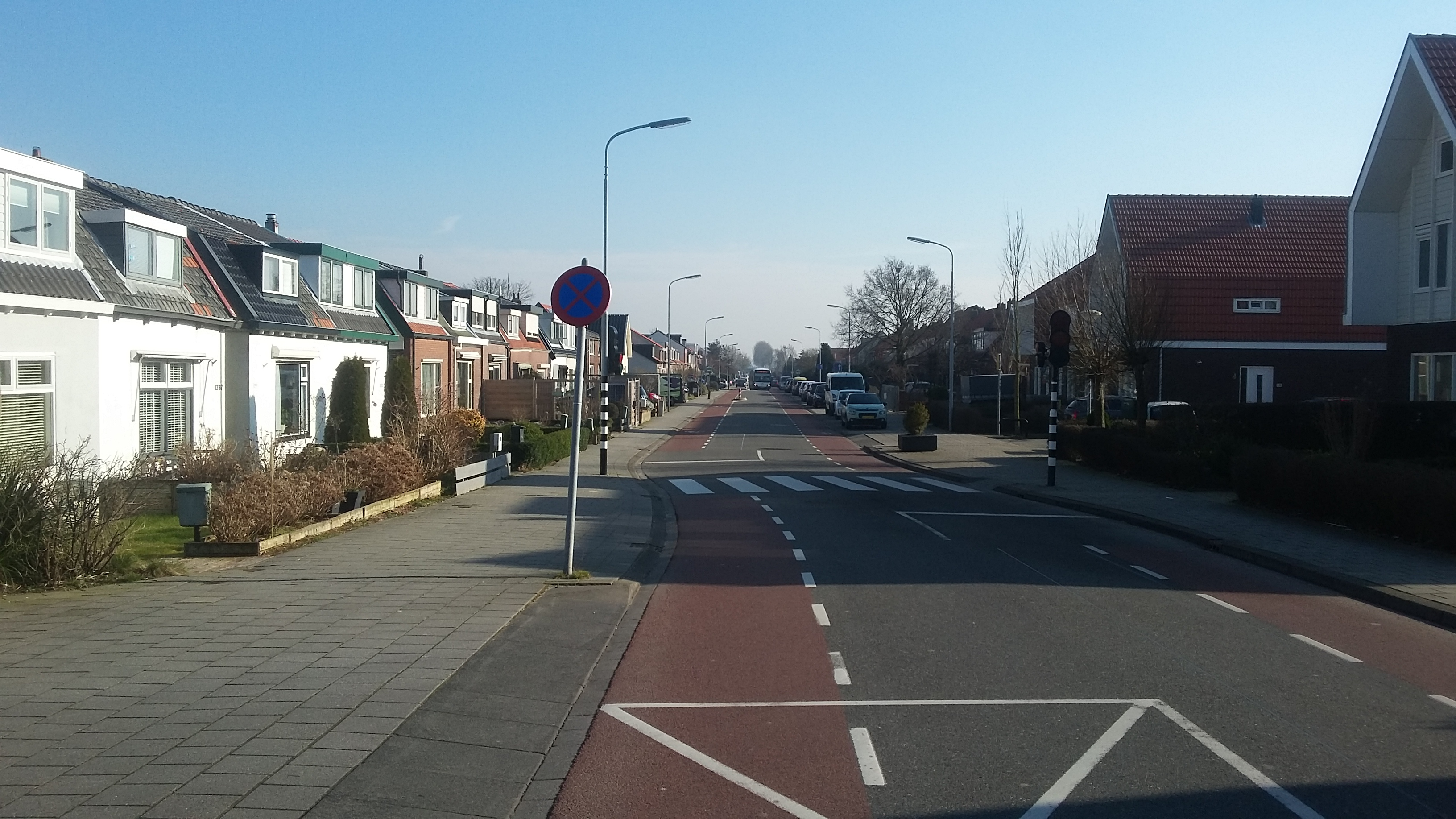 Venniperweg Beinsdorp